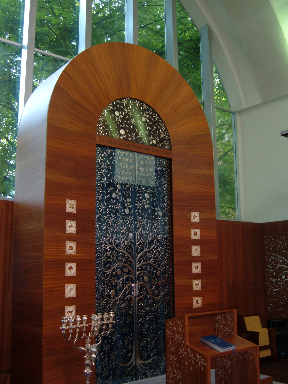 Aron haqodesh in New Tallinn Synagogue